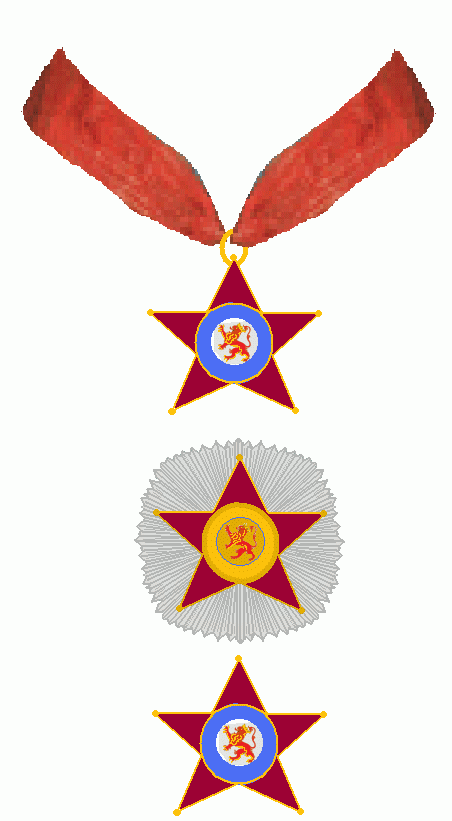 Royal Order of Spain